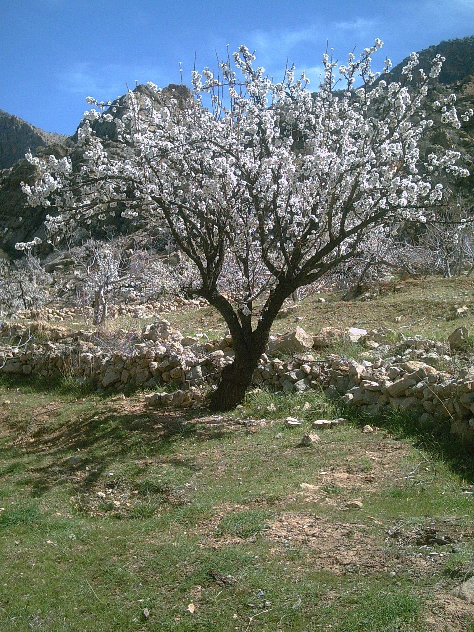 Palangan is a natural jungle in Neyriz,Iran.Unknown